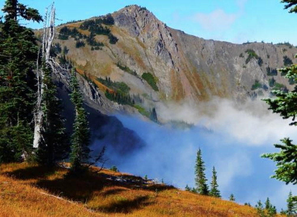 Eagle Point seen from Point 5881 on Hurricane Ridge, Olympic National Park. Washington state